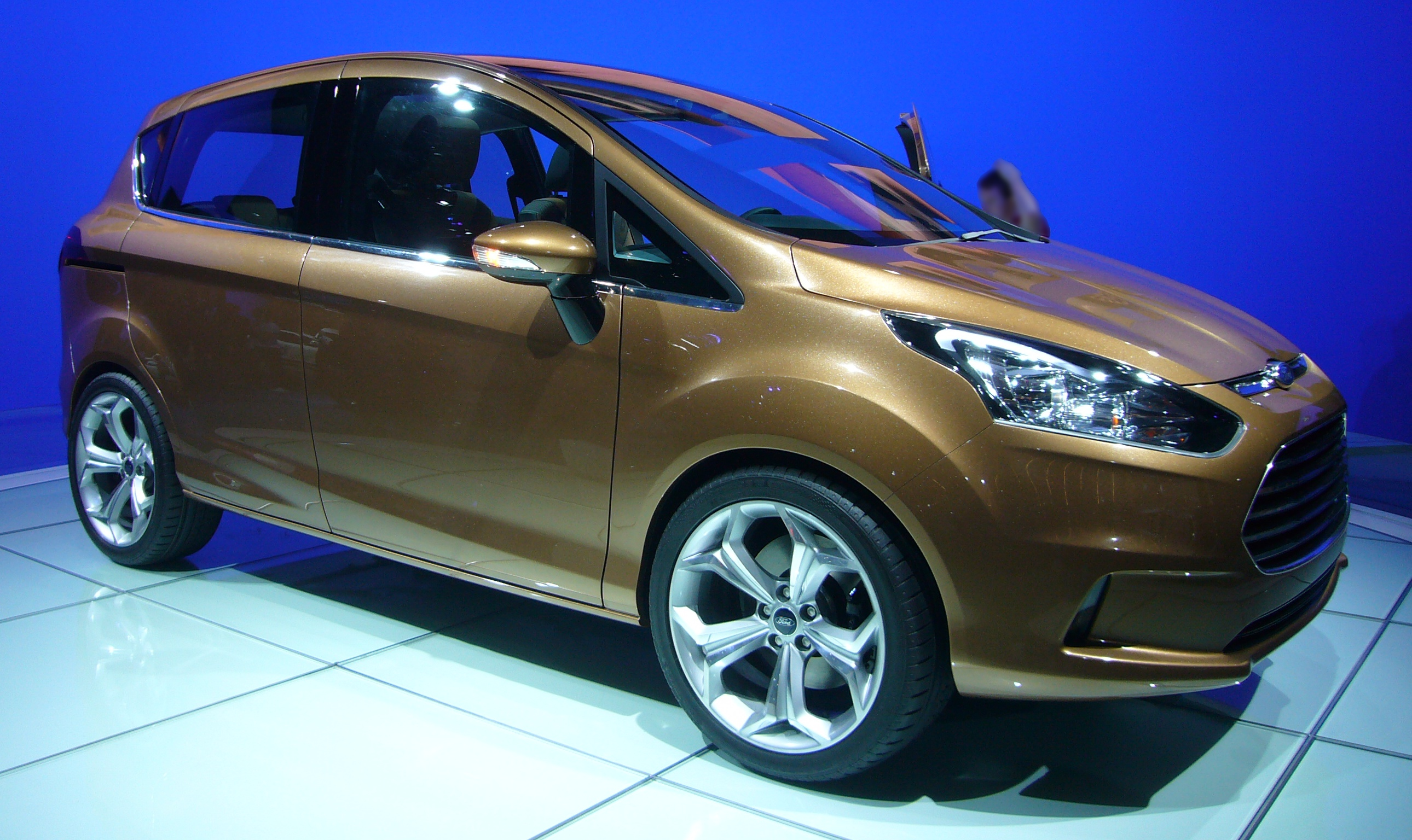 Ford B-MAX Concept at AutoRAI Amsterdam 2011